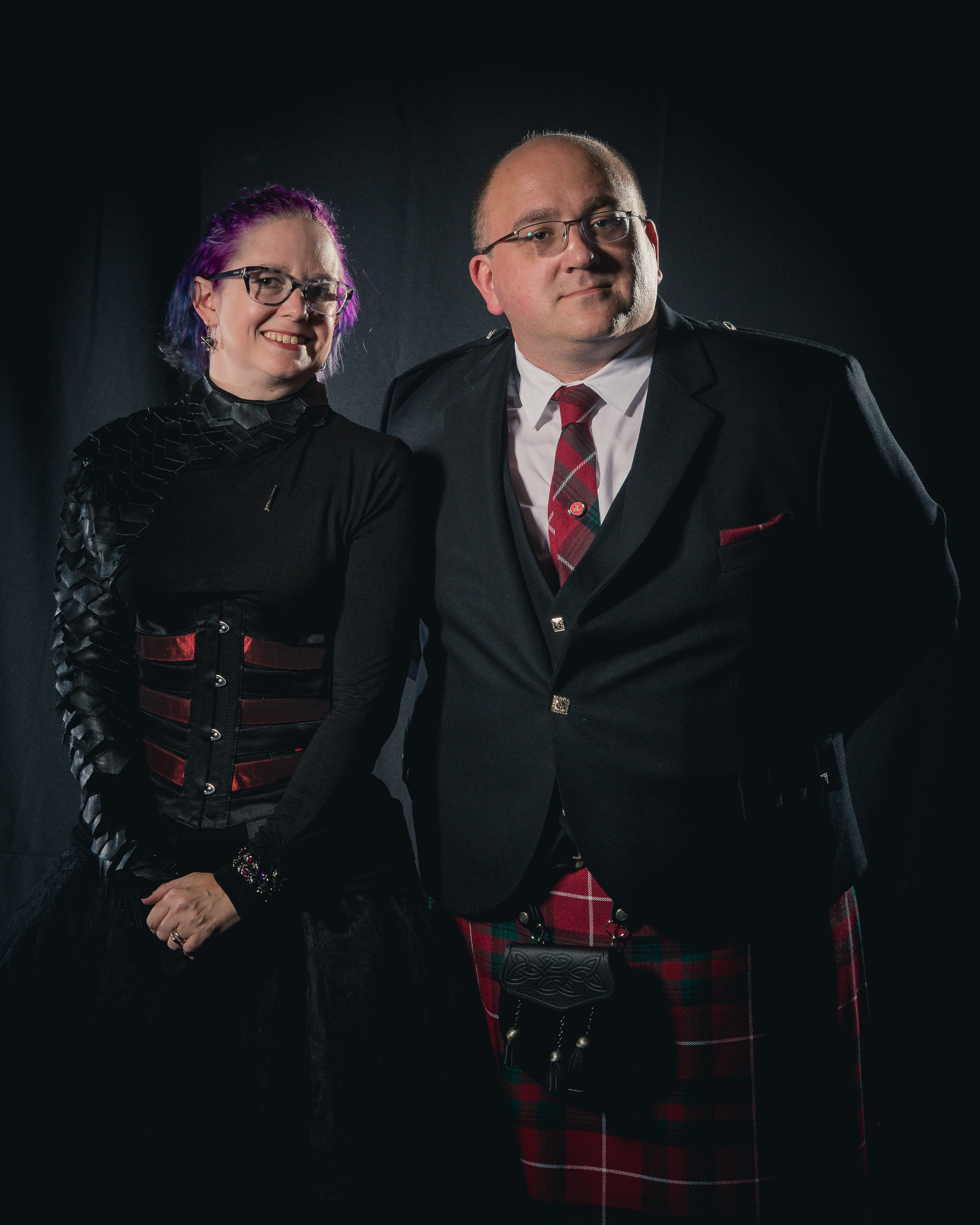 Portrait photoshoot at Worldcon 75, Helsinki, before the Hugo Awards: Mur Lafferty and Alasdair Stuart